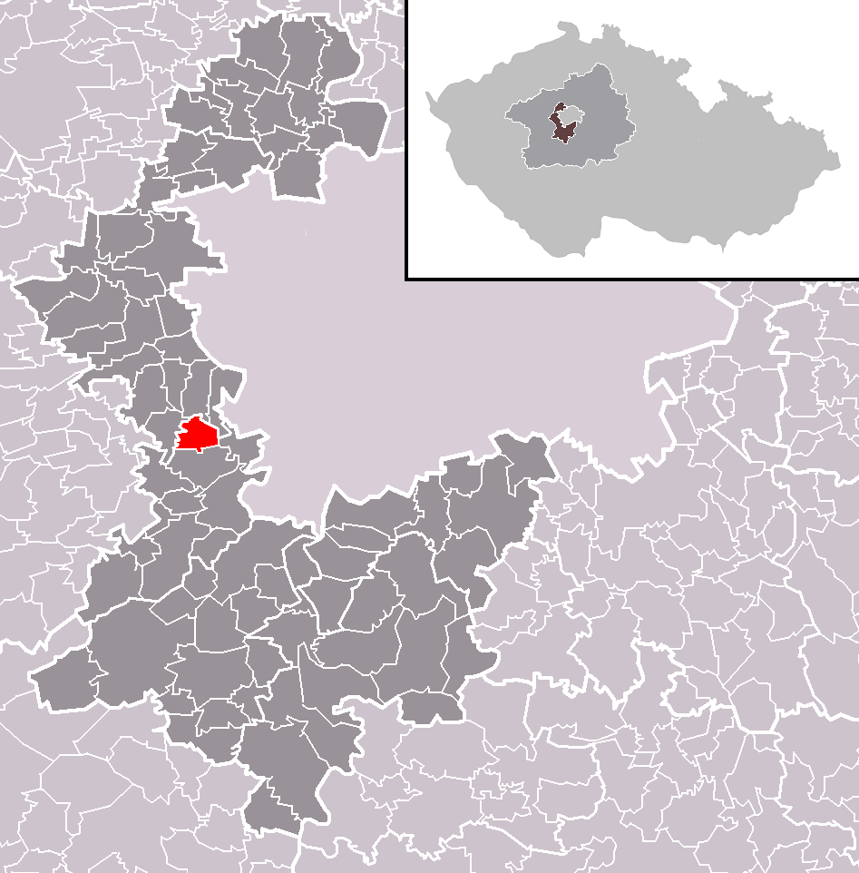 Location of Choteč municipality within Prague-West District and administrative area of Černošice as a Municipality with Extended Competence.